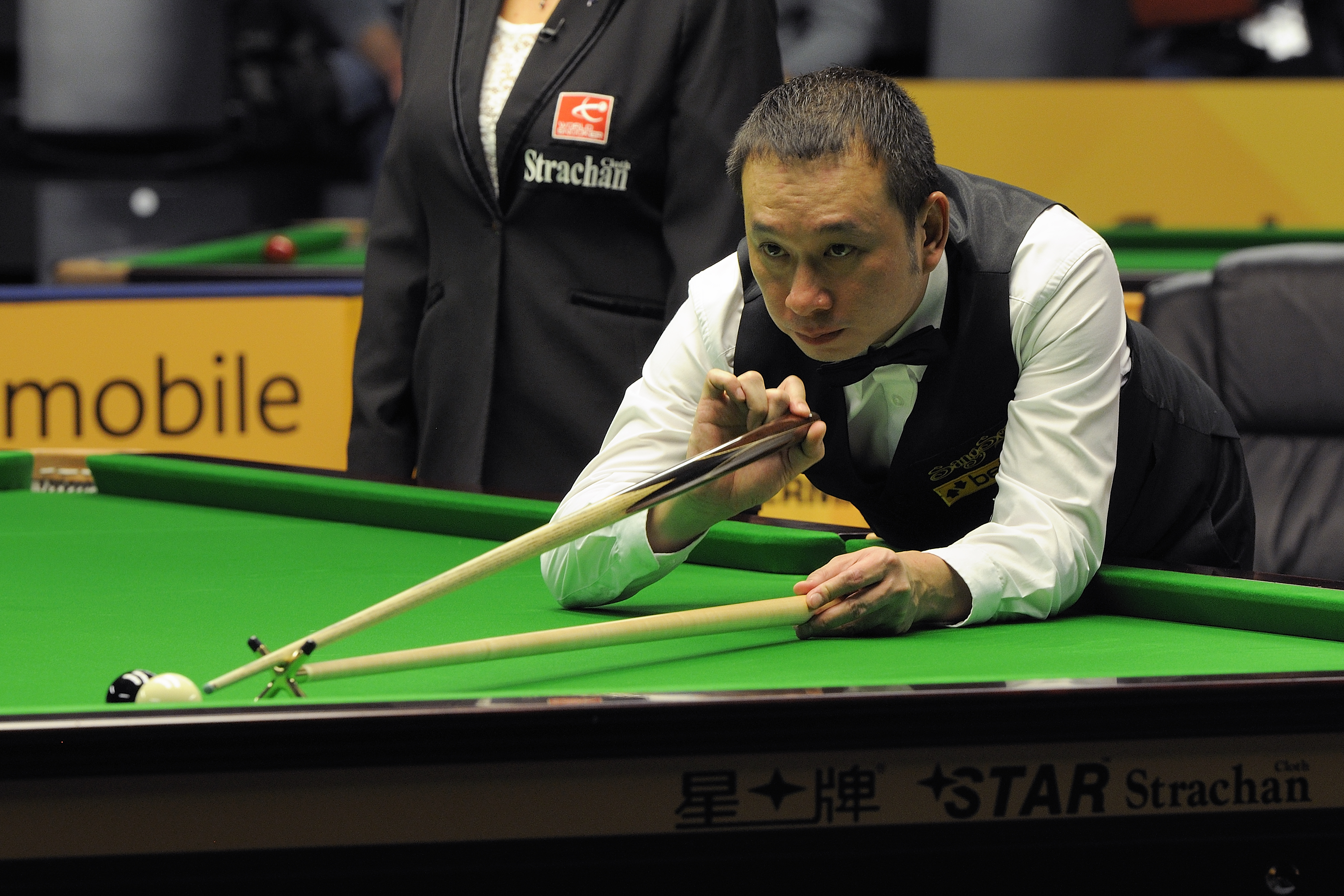 Picture taken in Berlin during the Snooker German Masters in 2013. James Wattana.